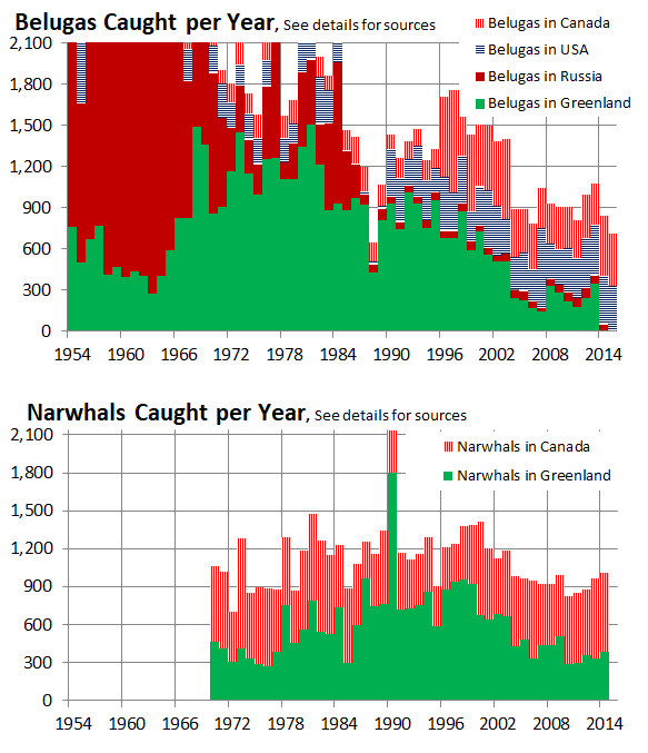 Belugas and Narwhals caught by humans. Sources are: Narwhals in Greenland and Canada: Belugas: The actual numbers each year are in the Beluga whale article, and come from: Belugas in Eastern Arctic + Sea of Okhotsk Belugas in Western Arctic Belugas in Greenland since 1954 Belugas in Greenland since 1970 Belugas in Alaska to 2011, except Cook Inlet Belugas in Cook Inlet 1987-93 Belugas in Alaska and Beaufort Sea more recently Belugas in NW Canada 1970-1999 Belugas in Beaufort Sea Canada 2000-2012 Belugas in Nunavik since 2003 Belugas in Nunavik 1986-2002 Belugas in Nunavut 1996-2003